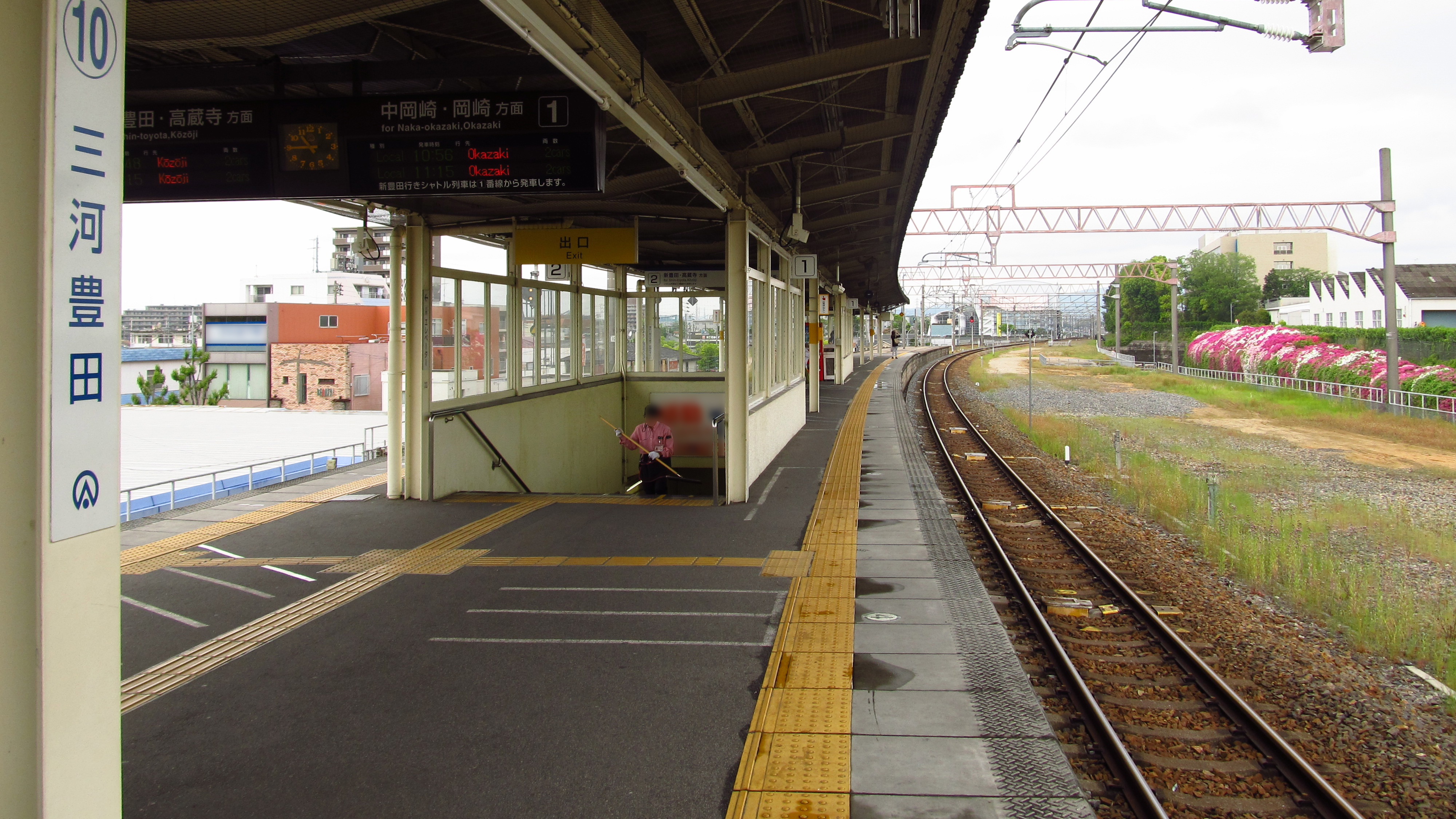 The platform at Mikawa-Toyota Station on the Aichi Loop Line in the Toyota city, Aichi prefecture, Japan